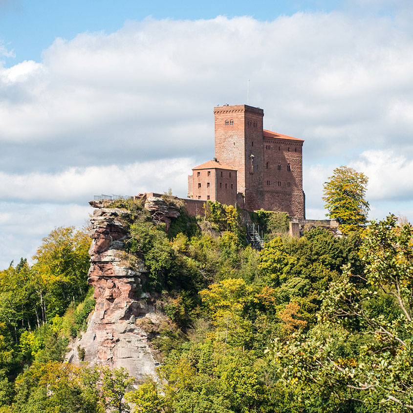 Trifels Castle (German: Reichsburg Trifels) is a medieval castle at an elevation of 500 m (1,600 ft) near the small town of Annweiler